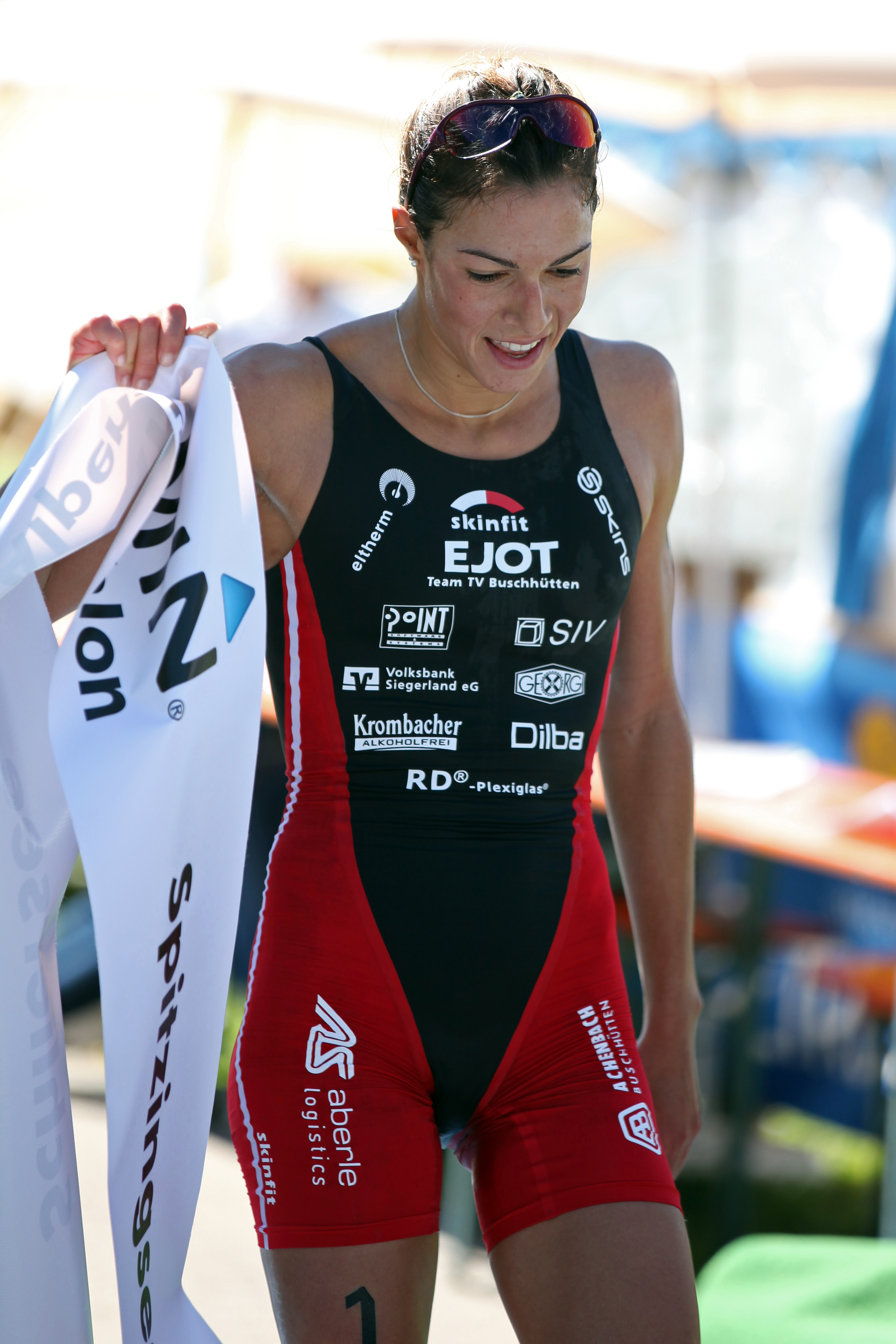 Charlotte Morel, winner of the Schliersee Triathlon, the Grand Final of the German Bundesliga.